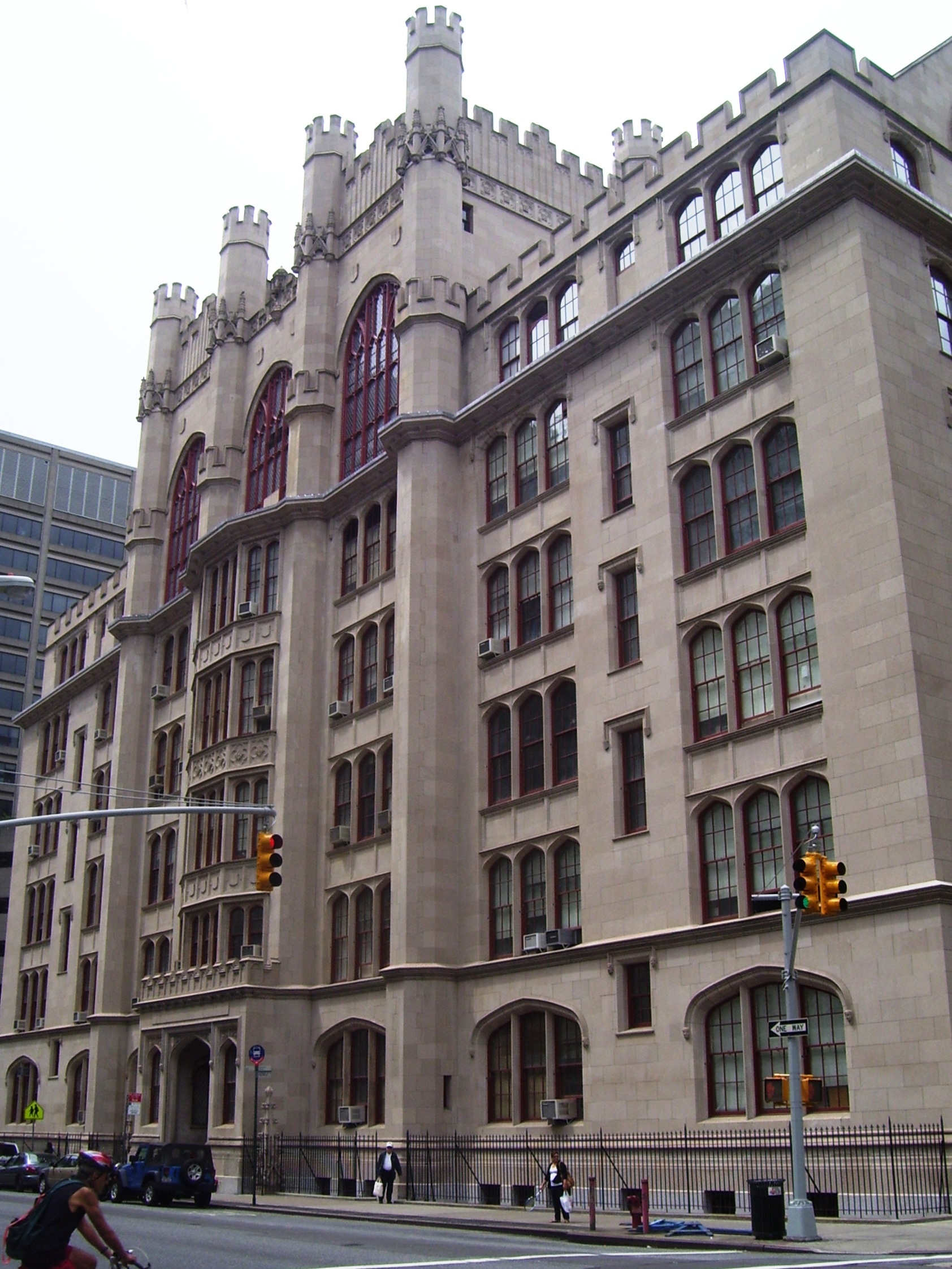 Thomas Hunter Hall of the City University of New York's Hunter College, at 930 Lexington Avenue on the full block between East 68th and 69th Street in the Lenox Hill neighborhood of the Upper East Side of Manhattan, New York City, was built in 1912-14 and was designed by C.B.J. Snyder in the English Gothic style. It was originally a school building on the grounds of New York Normal College (formerly the Normal School for Women), and became Hunter College High School after Normal College became Hunter College in 1914. Now it is Thomas Hunter Hall of the College, which is part of the CUNY system. It is located within the Upper East Side Historic District. (Sources: "NYCLPC Upper East Side Historic District Designation Report, volume 2" and AIA Guide to NYC (5th ed.))